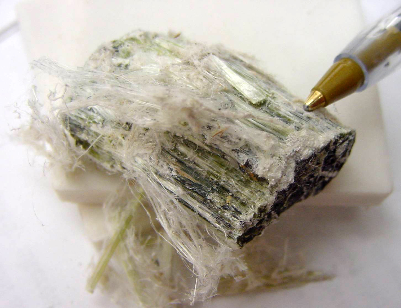 Chrysotile (pen for scale) Mineral collection of Brigham Young University Department of Geology, Provo, Utah. No BYU index